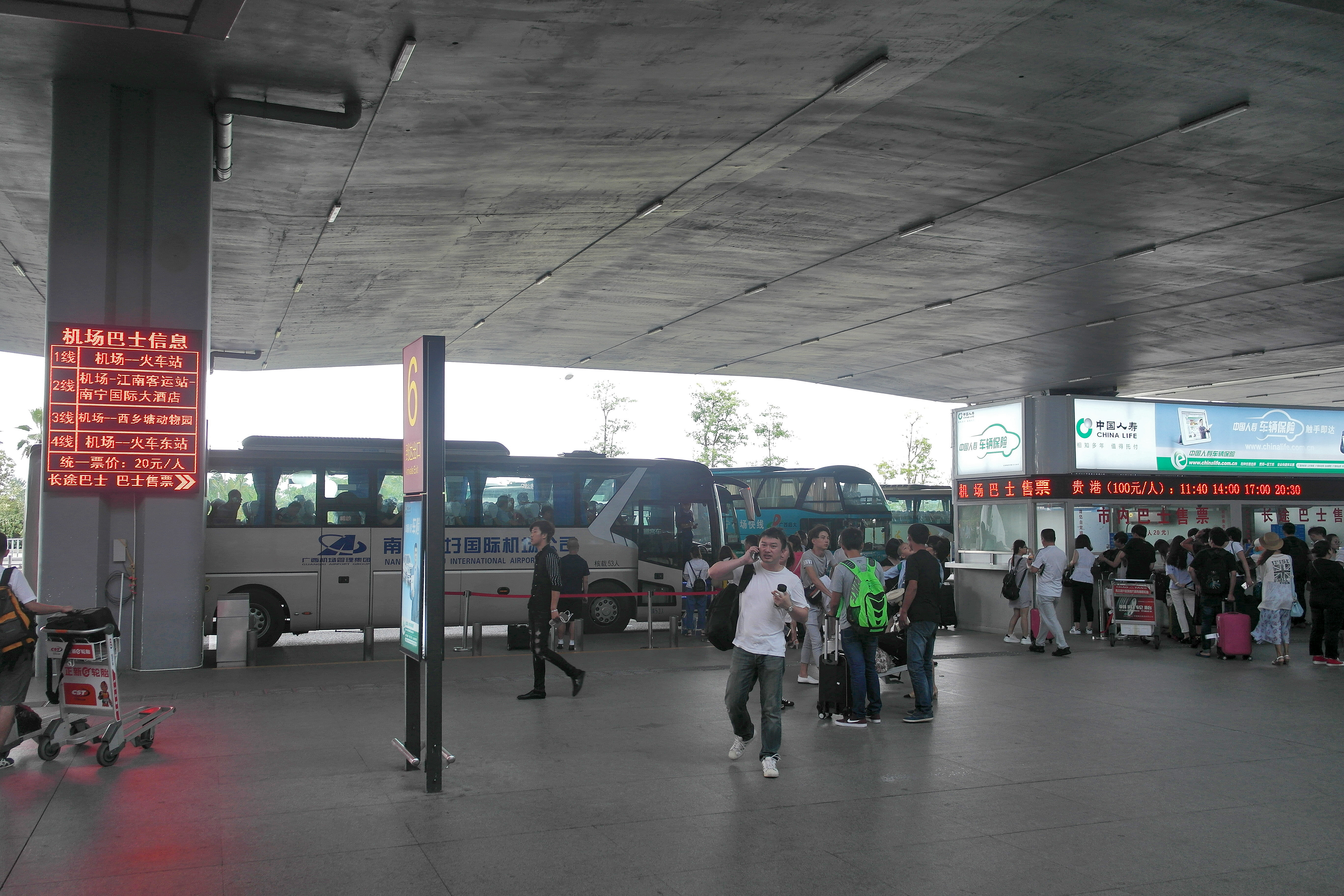 SAMSUNG CSC